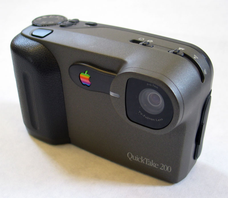 Photograph of the front of an Apple Quicktake 200 camera.